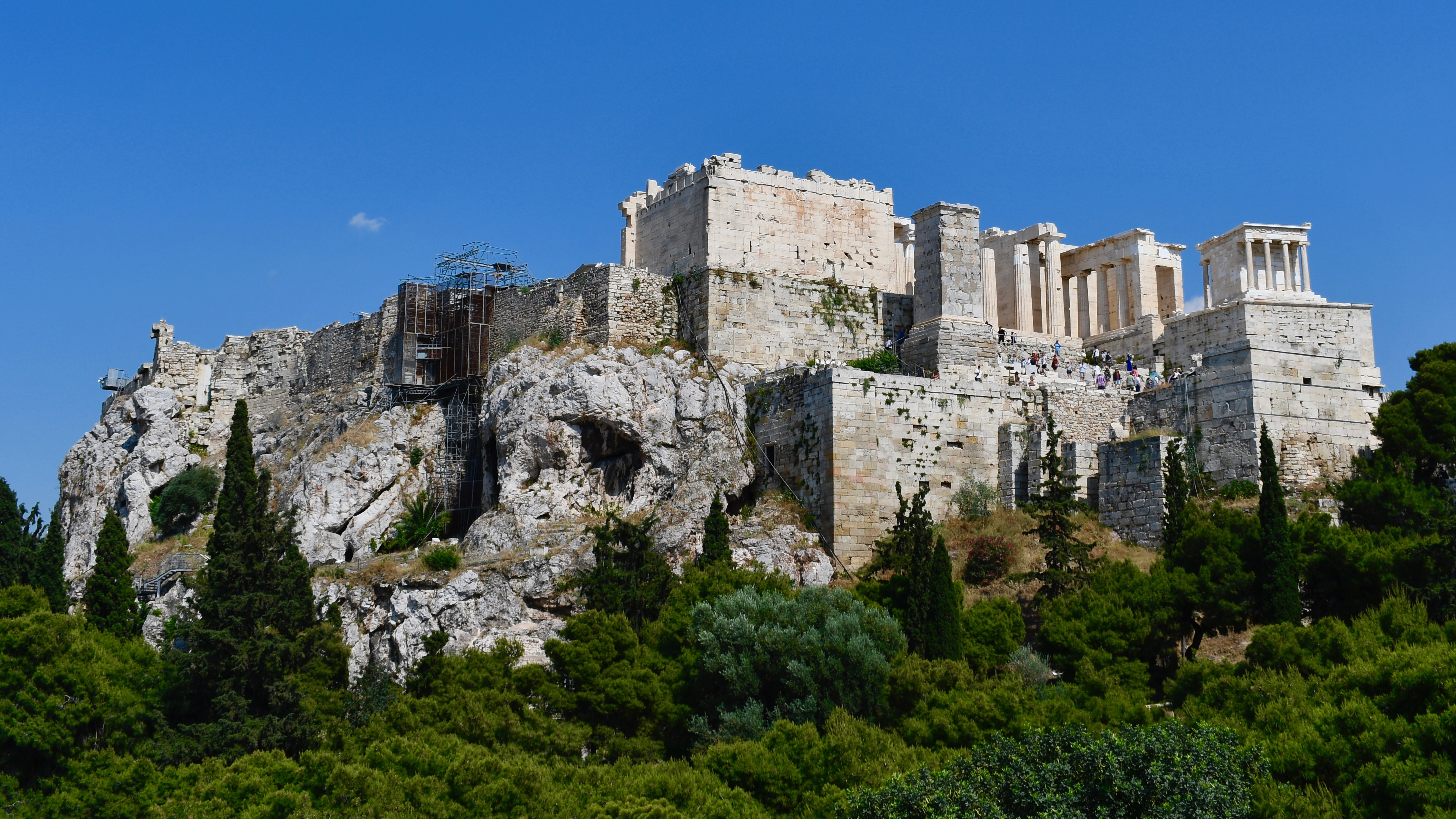 Picture of Acropolis taken from the Areopagus in the afternoon. Taken on 7 June 2019. JPEG